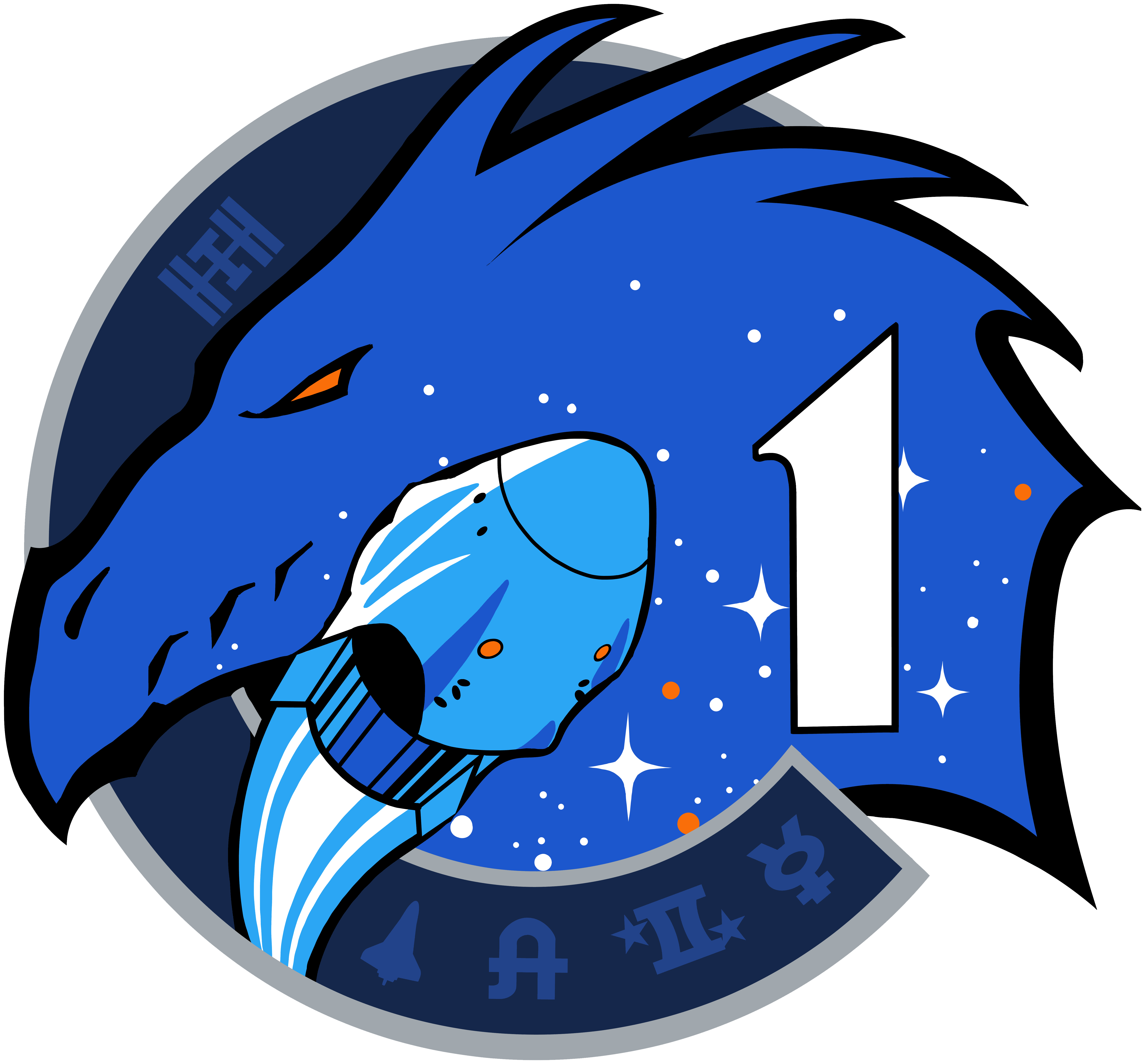 Patch of the SpaceX Crew-1 mission